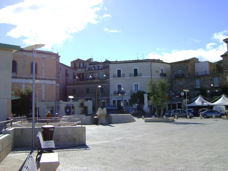 Piazza Guglielmo Oberdan, a square of Atessa